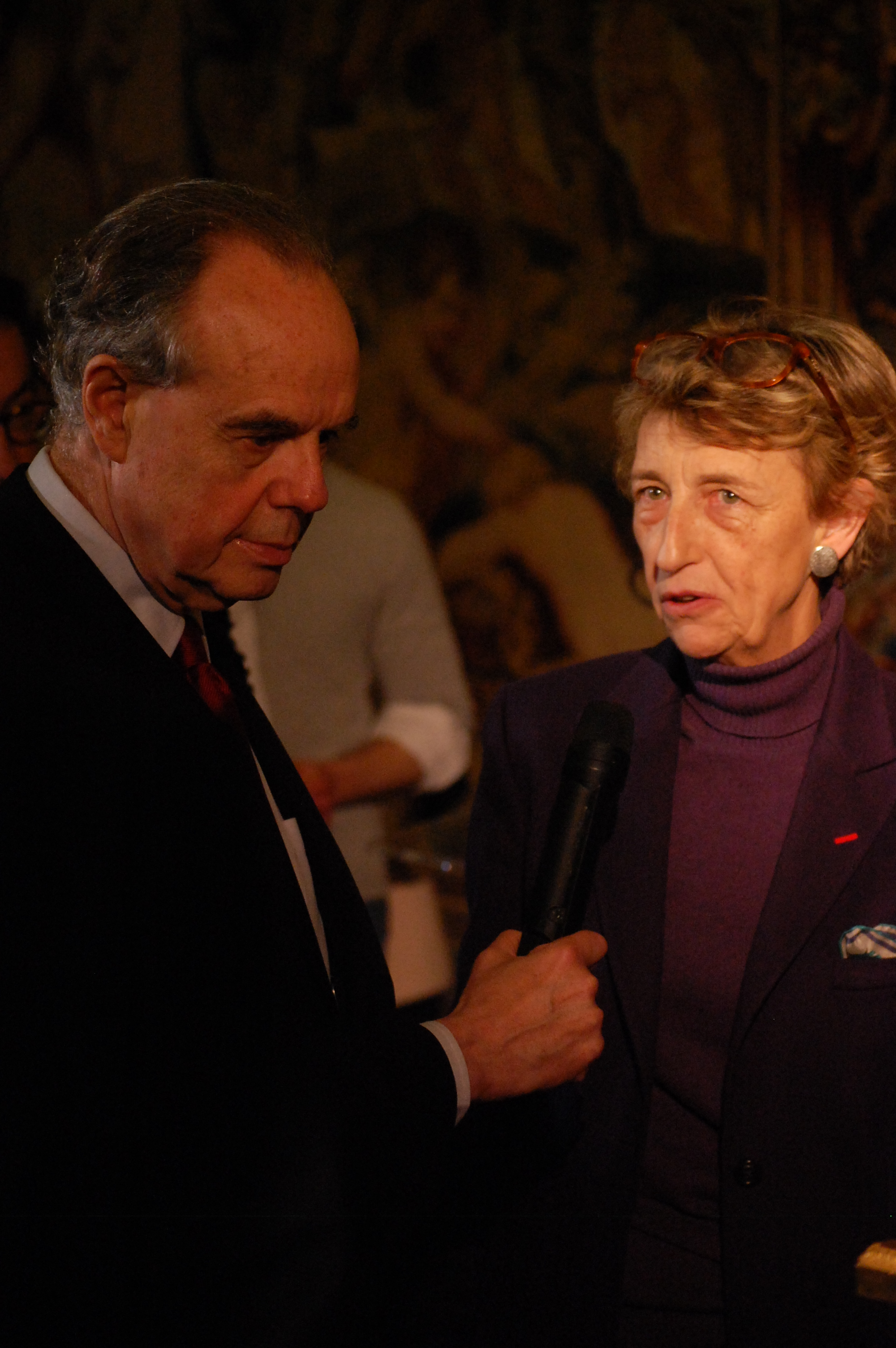 Présentation of the Bureau de la Reine by Béatrix Saule to Frédéric Mitterrand, minister of Culture